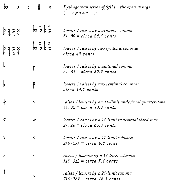 Legend of microtonal accidentals used in The Extended Helmholtz-Ellis JI Pitch Notation, developed by Wolfgang von Schweinitz and Marc Sabat.